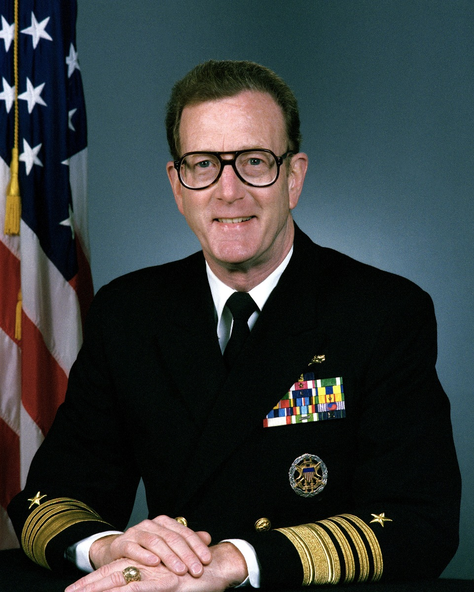 Official portrait of Adm. James R. Hogg. ID: DN-SC-91-02424